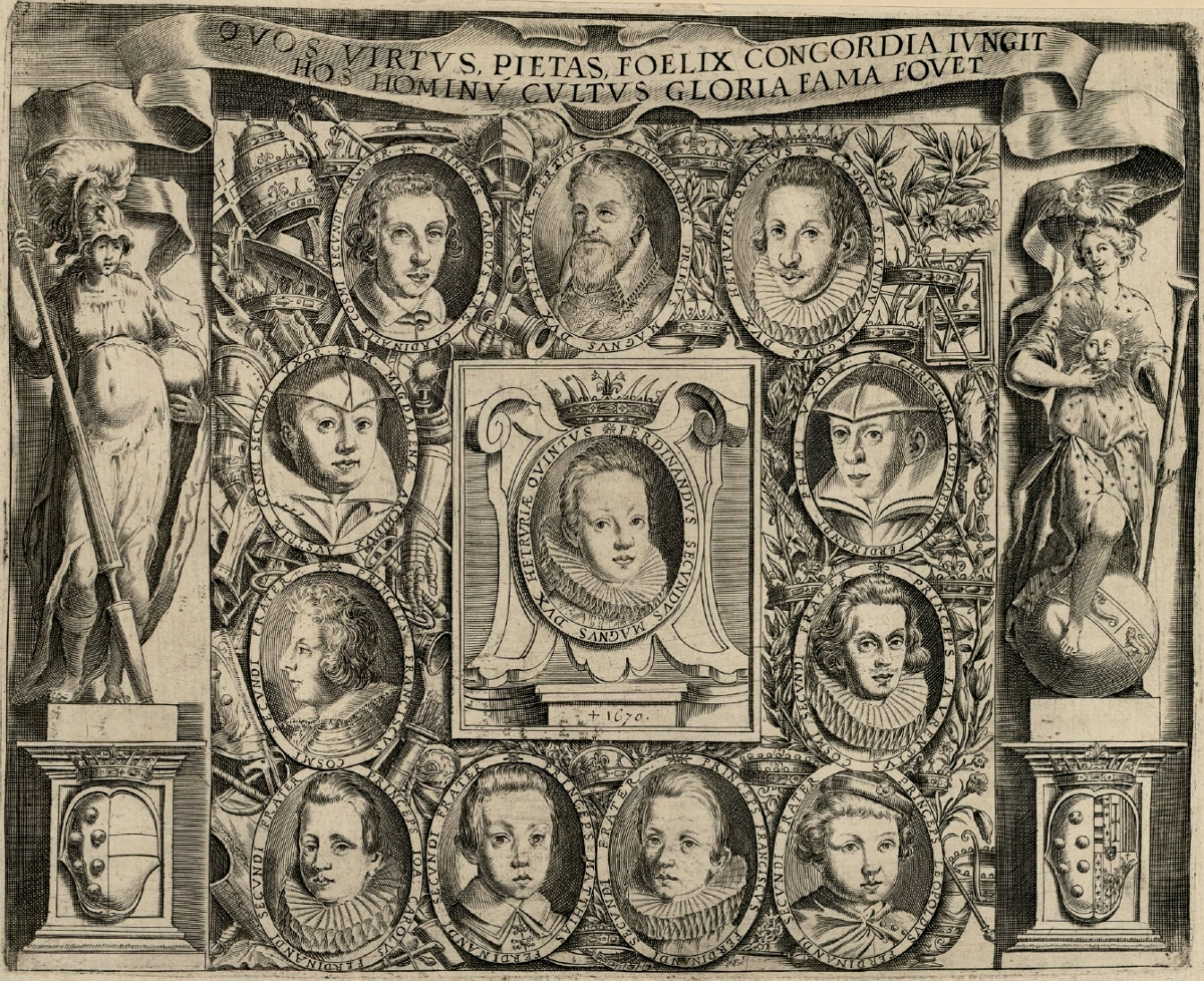 The family of Ferdinando II de' Medici, Grand Duke of Tuscany in circa 1621 by an unknown artist